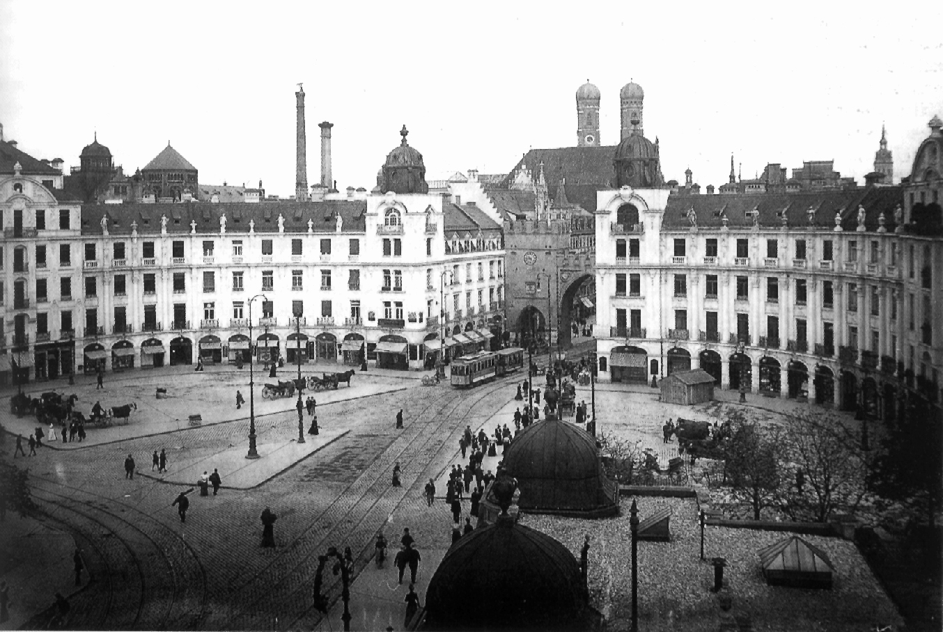 Karlsplatz/Stachus in 1902. Upper left Background: Tower of the main synagogue. Central upper background: Frauenkirche church. Center: Stachus with "Neuhauser Tor".